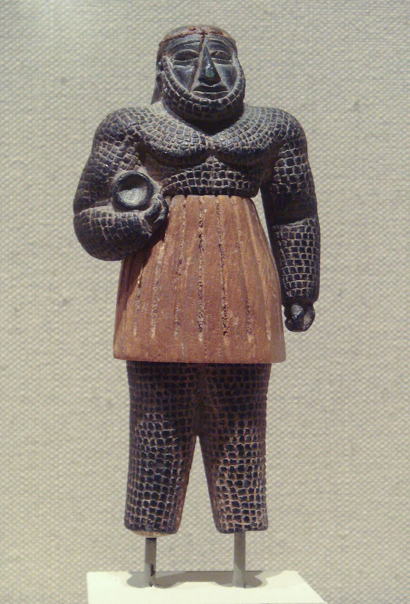 BMAC Monster With Trumpet 3rd-Early 2nd Millenium BCE